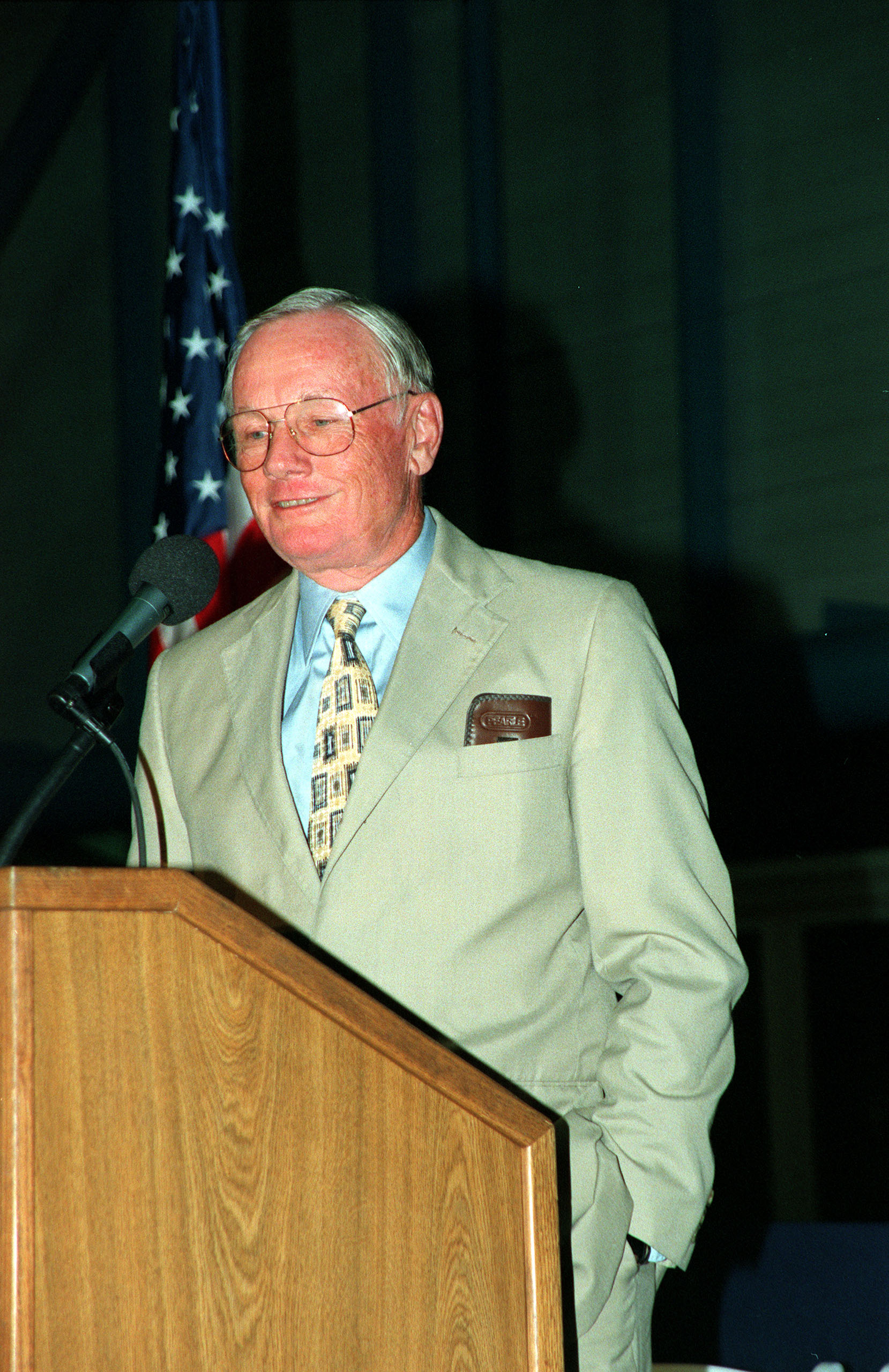 Neil Armstrong, former astronaut, commander of Apollo 11, and first man to walk on the moon, talks about his experiences for an enthusiastic audience at the Apollo/Saturn V Center, part of the John F. Kennedy Space Center Visitor Complex. The occasion was a banquet celebrating the 30th anniversary of the Apollo 11 launch and moon landing, July 16 and July 20, 1969. Among other guests at the banquet were astronauts Wally Schirra, Edwin "Buzz" Aldrin and Walt Cunningham.